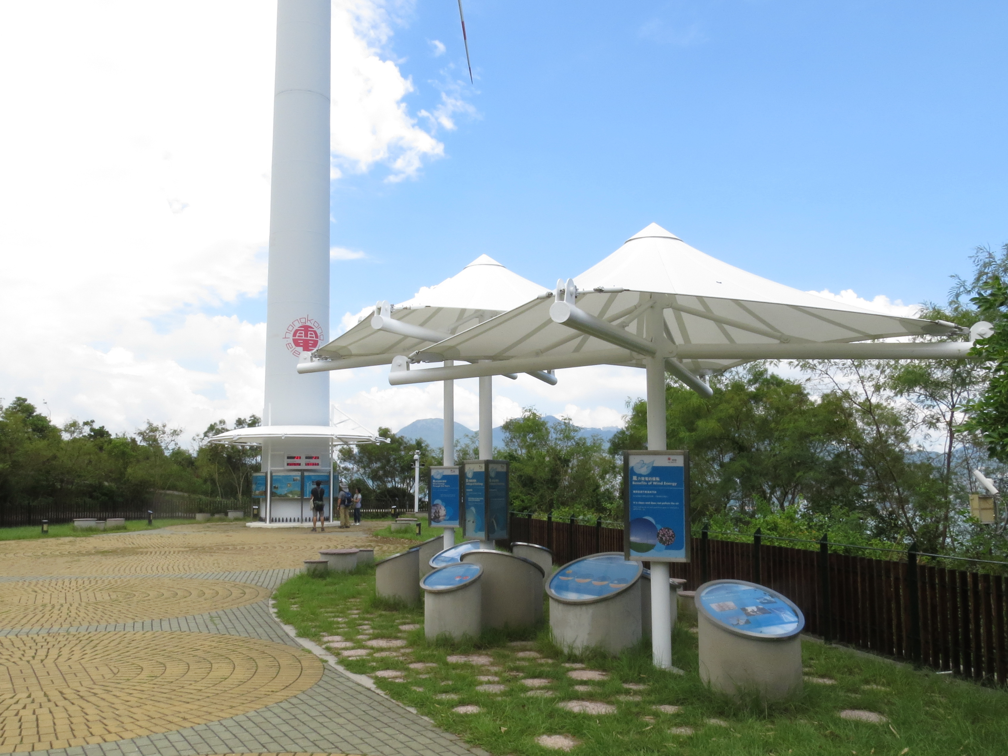 Lamma Winds Exhibition Centre, Lamma Island, Hong Kong.